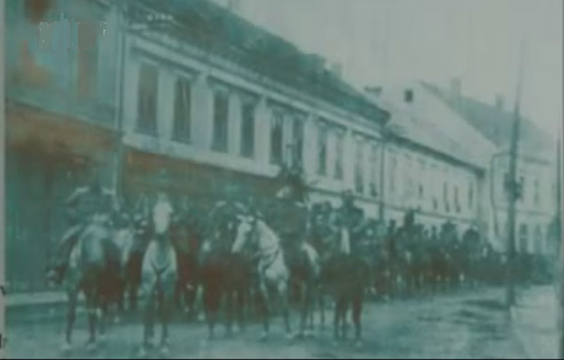 Croatian cavalry in Međimurje, 1918 Predaja mađarske posade u Čakovcu